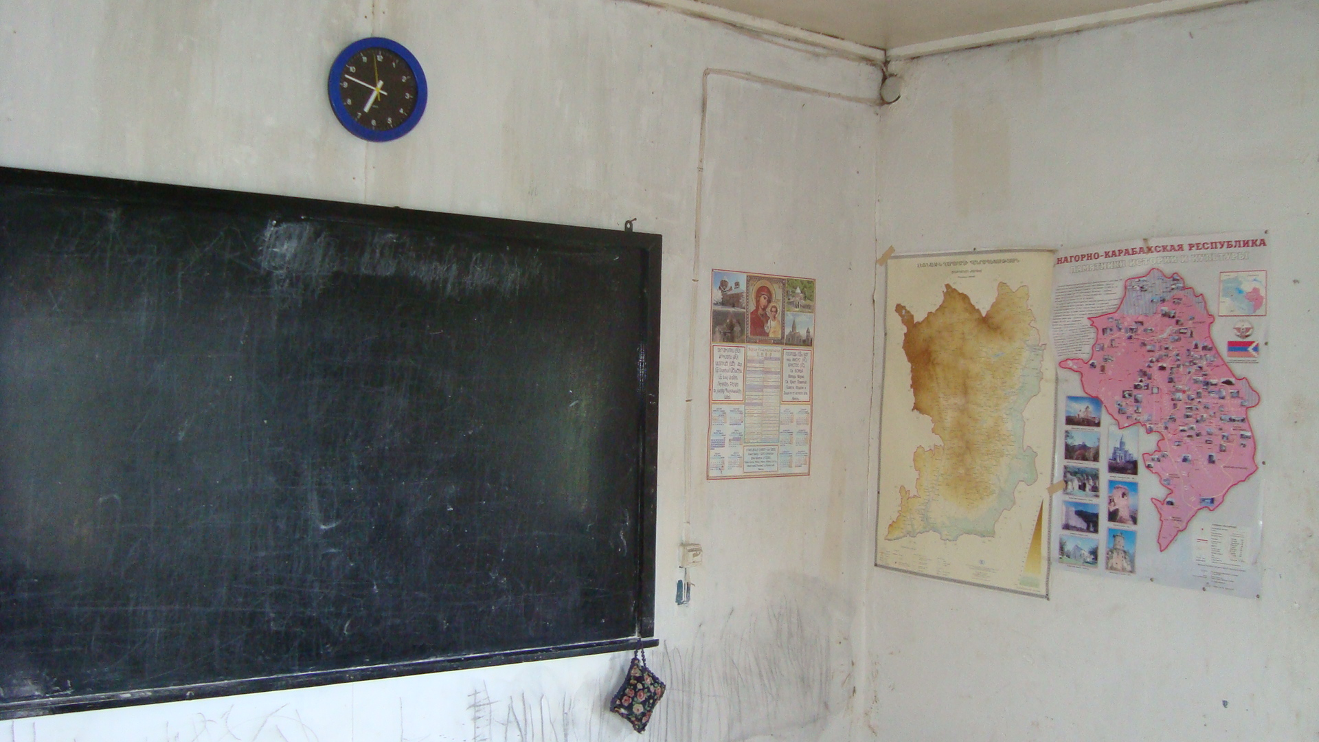 The school (interior). Mehmana, Martakert province, Republic of Mountainous Karabakh (Artsakh).